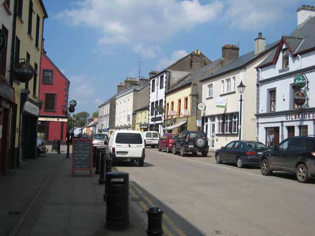 Main Street, Manorhamilton A busy little town on the N16 Sligo to Enniskillen road which crosses the end of this main shopping street.